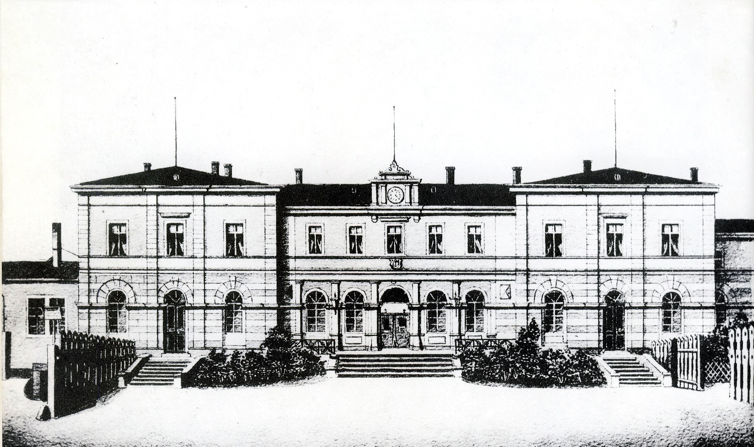 Trainstation Großenhain in 1870